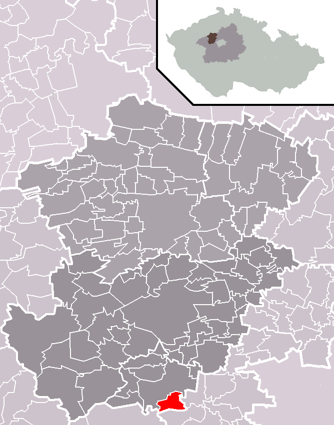 Location of Svárov municipality within Kladno District and administrative area of Kladno as a Municipality with Extended Competence.